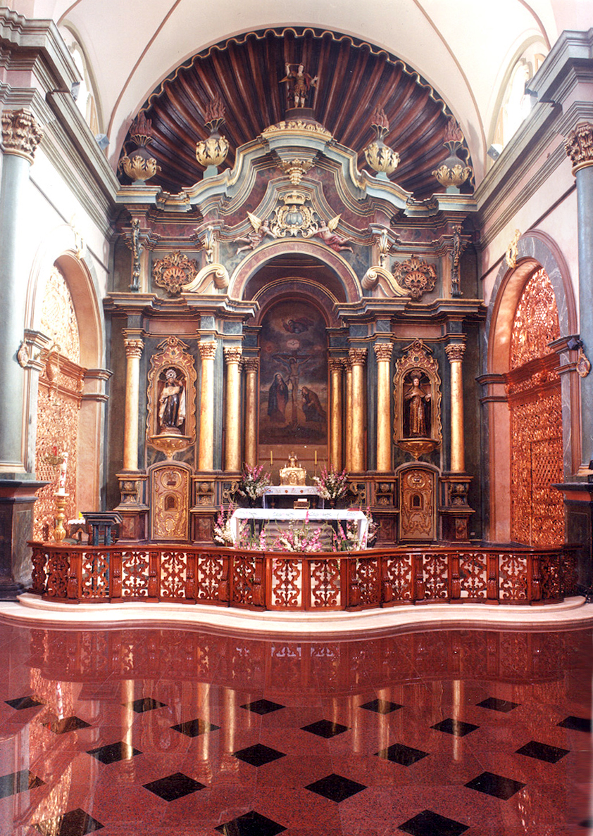 Subject: Señor de los Milagros de Nazarenas City: Lima Country: Peru Shot date: September, 14th, 2001 Photographer: Miguel Chong